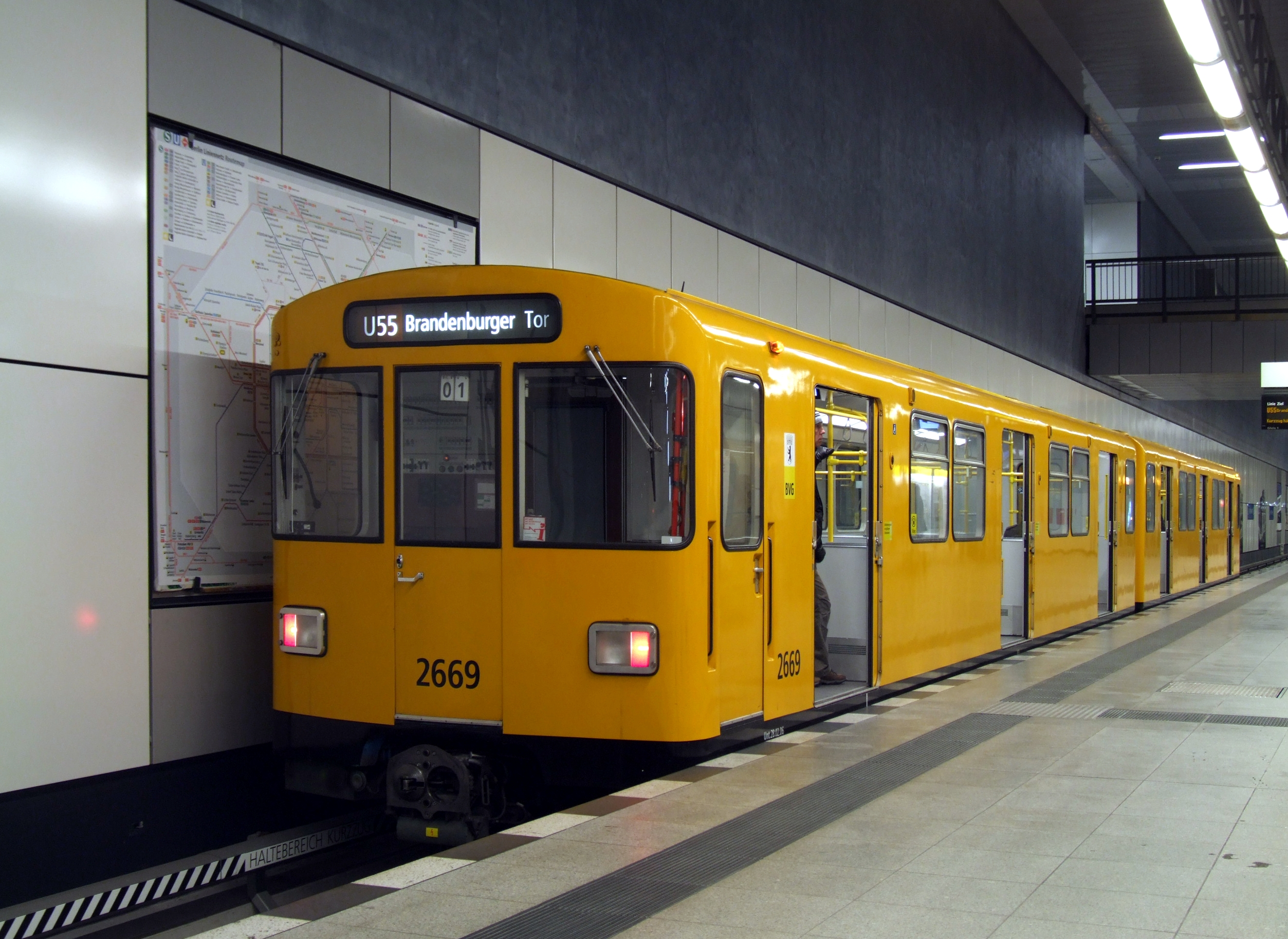 U-bahn station Berlin Hauptbahnhof - train type F